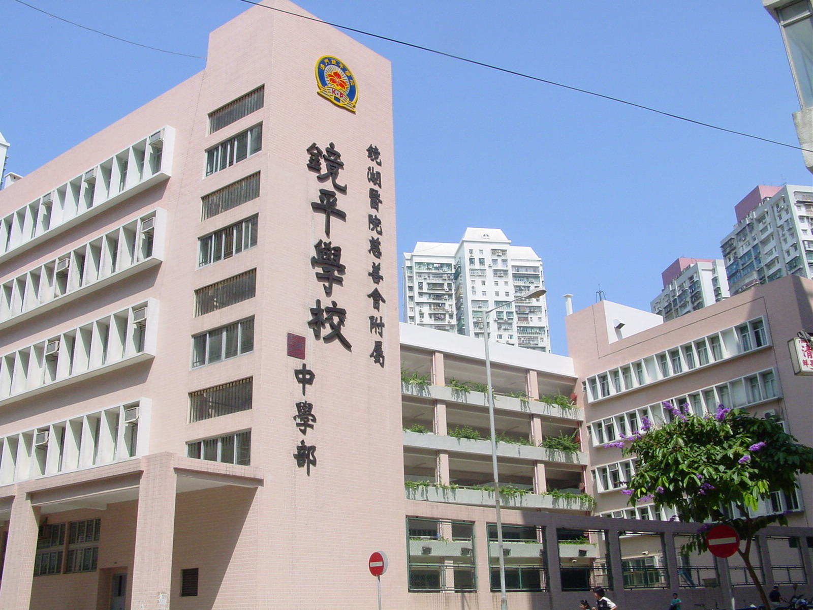 Keang Peng School, Secondary Division